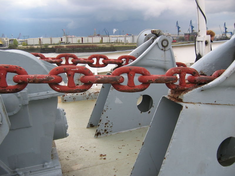 Author =MaciejKa Source =MaciejKa